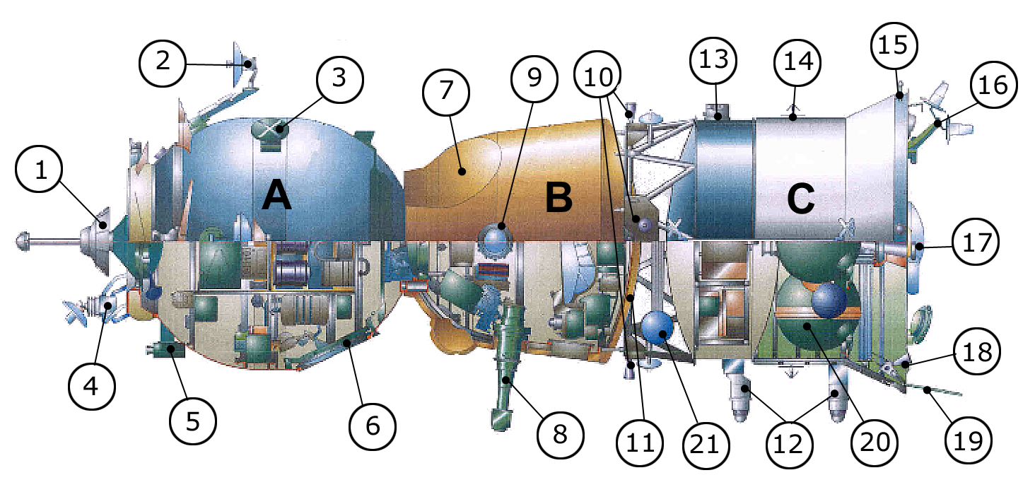 Soyuz TMA spacecraft diagram Orbital module (A): 1 docking mechanism 2 and 4 Kurs antenna, 3 television transmission antenna, 5 camera, 6 hatch Descent Module (B): 7 parachute compartment, 8 periscope, 9 porthole, 11 heat shield Service module (C): 10 and 18 attitude control engines, 21 oxygen tank, 12 Earth sensors, 13 Sun sensor, 14 solar panel attachment point, 16 Kurs antenna, 15 thermal sensor, 17 main propulsion, 20 fuel tanks, 19 communication antenna